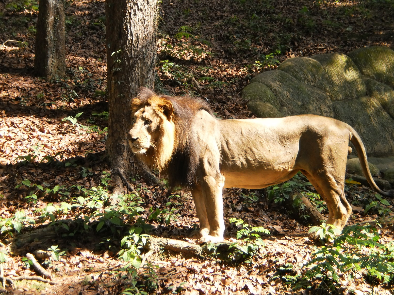 Lion in Thiruvanathapuram Zoo